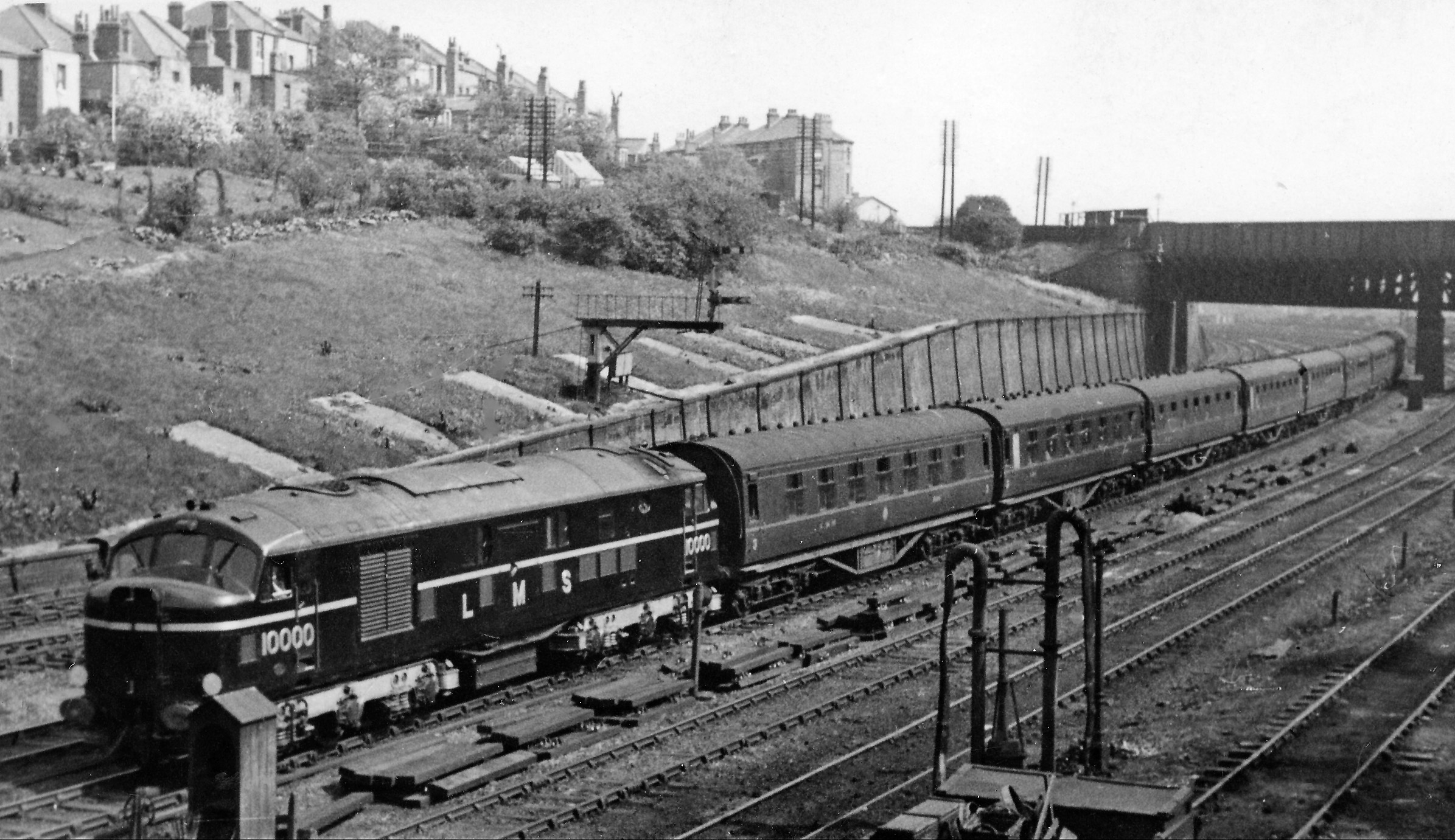 Pioneer LMS Diesel on St Pancras - Manchester express near Cricklewood. View SE, towards St Pancras on Midland Main Line at Watling Street Junction, south of Cricklewood. No. 10000 was the first British main-line Diesel locomotive, built at Derby LMS Works with English-Electric engines and transmission: it was a 1,600hp Co-Co diesel-electric, soon joined in 7/48 by another, No. 10001. From 15/3/48 No. 10000 worked regularly for a week between Derby and Manchester Central and here (on 24/4/48) had just begun running two return trips between Derby and St Pancras, this being the 14.15 St Pancras - Manchester express.